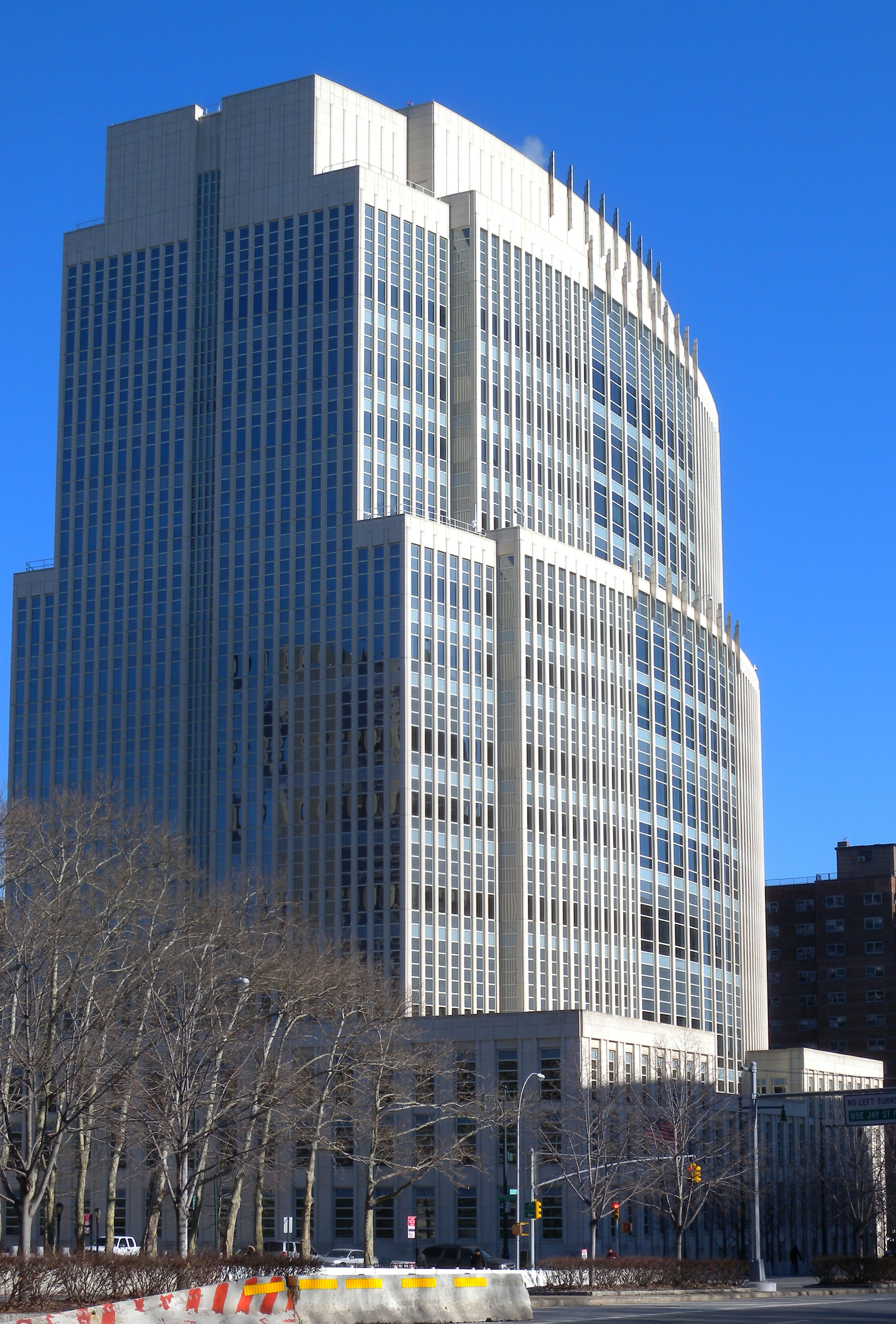 Looking northeast from Old Ferry Road across Tillary Street at new Federal courthouse on a sunny midday. See File:Bklyn Fed Court Boerum Tillary jeh.JPG for a rosier look.